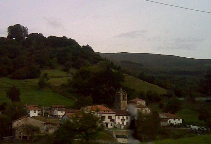 San Andrés de Luena (Cantabria)